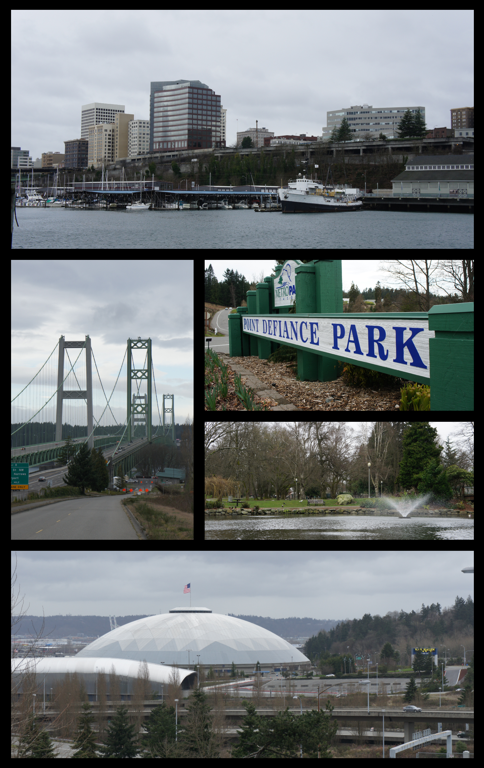 This is a montage for the city of Tacoma. The photos were taken 25 February 2012. Created using Adobe Illustrator. Photos were taken with a Sony NEX-5.